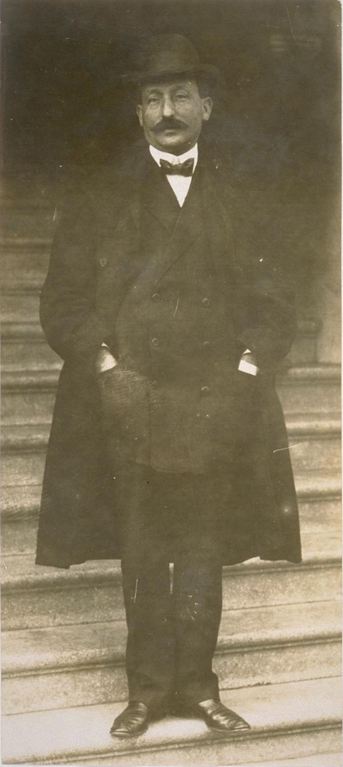 Political boss and lawyer Abe Ruef during the San Francisco Graft Trial, 1907-1908